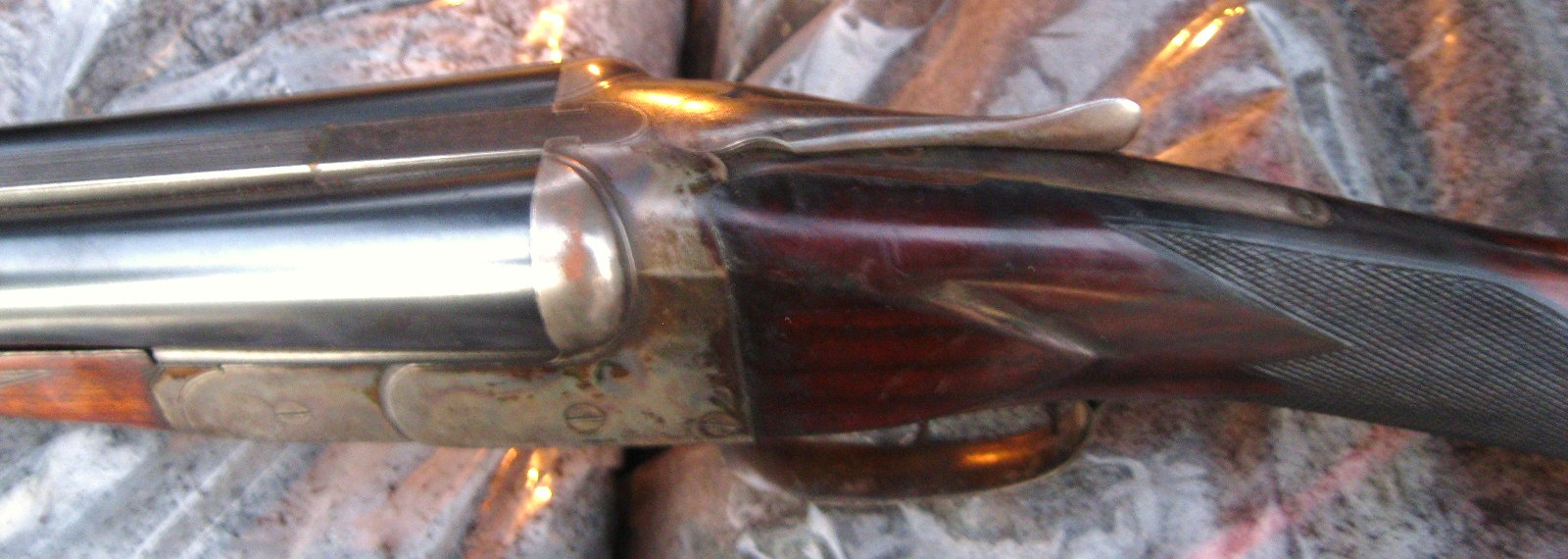 W.W. Heinbuch 20 gauge side by side shotgun